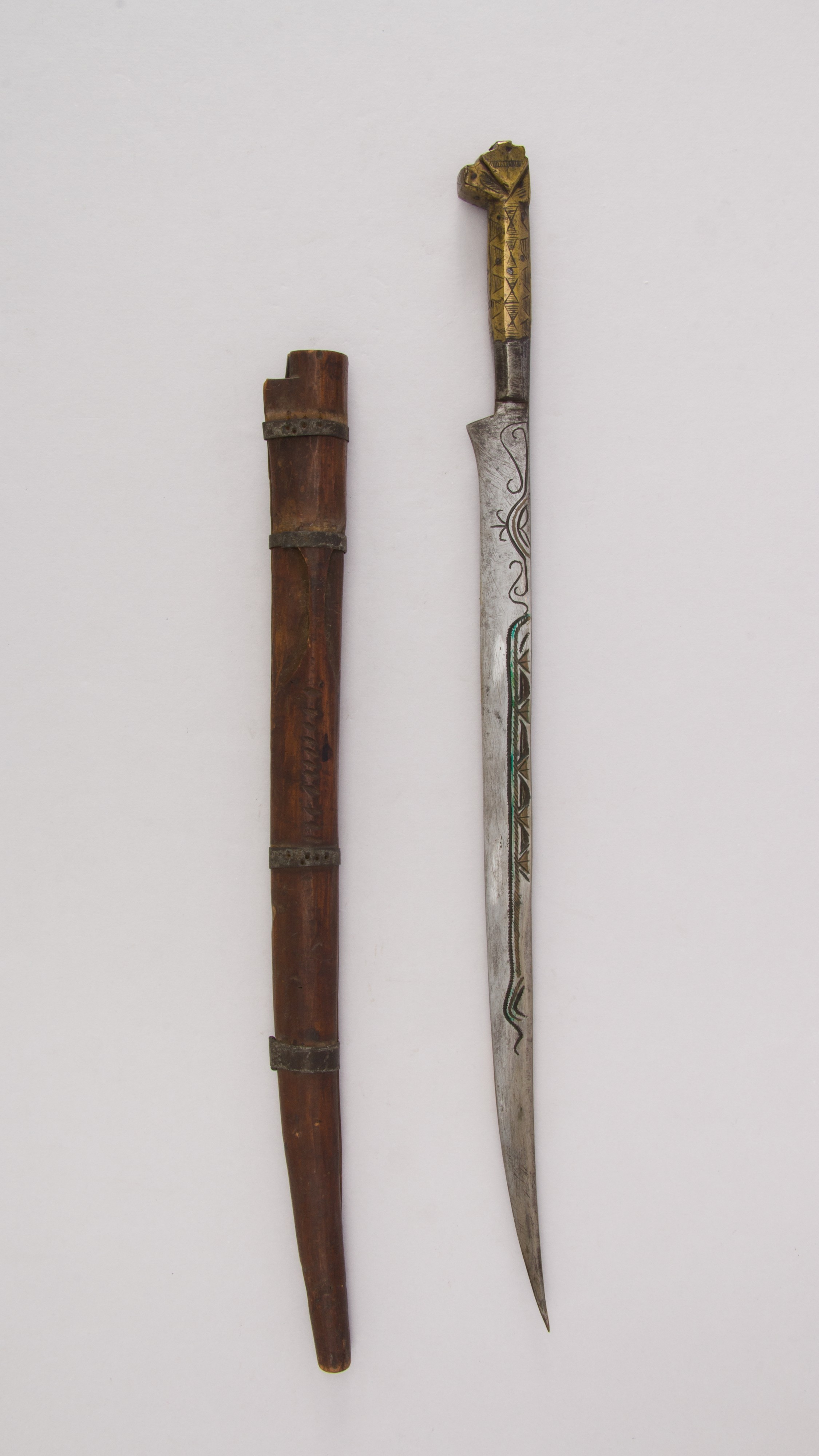 Moroccan; Knife (Flyssa) with sheath; Knives